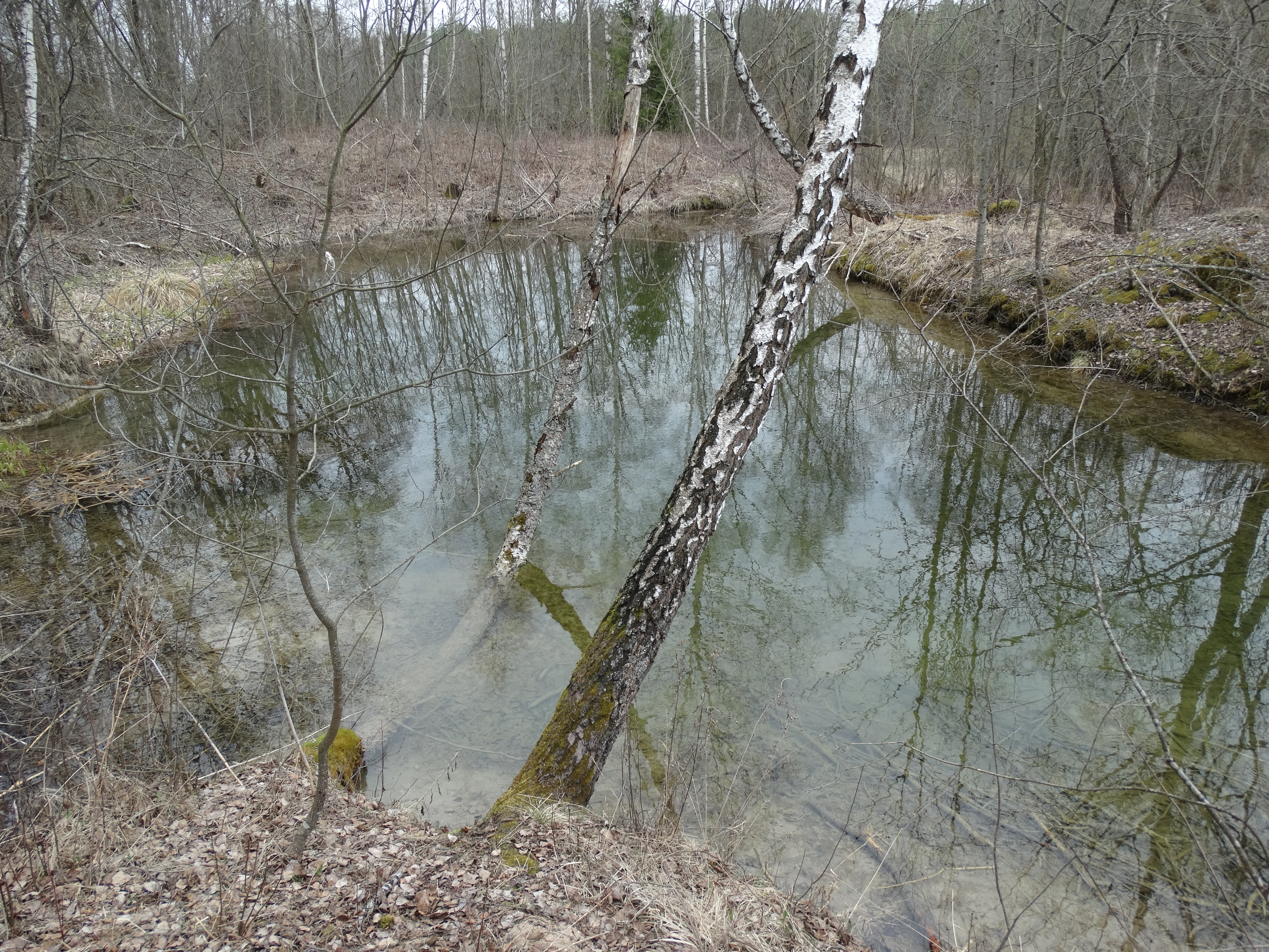 Spring in Riklikai, Anykščiai District, Lithuania